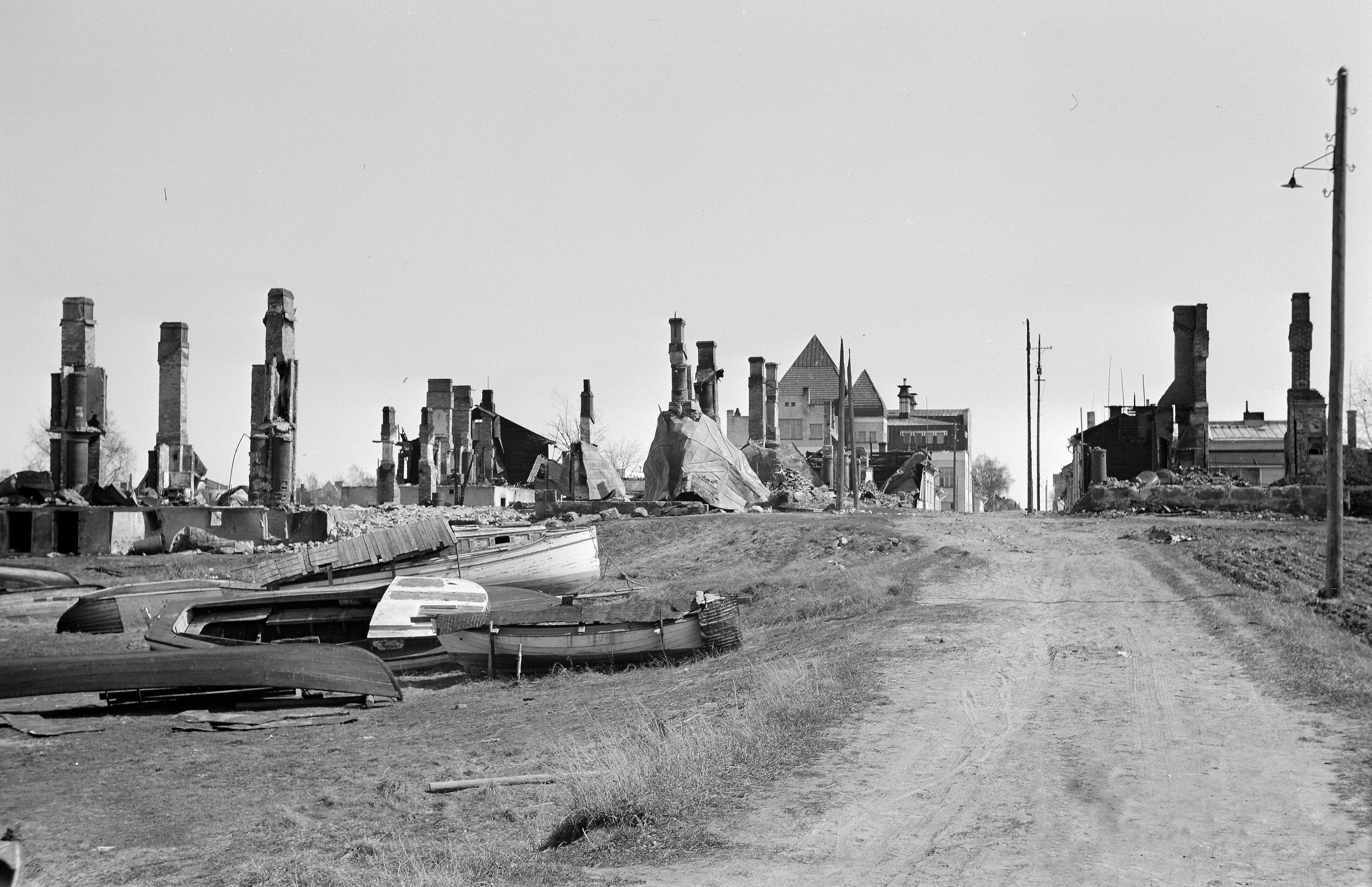 Kuusiluoto after bombardment in 1944. Finnish Co-education Lycée of Oulu in the background.